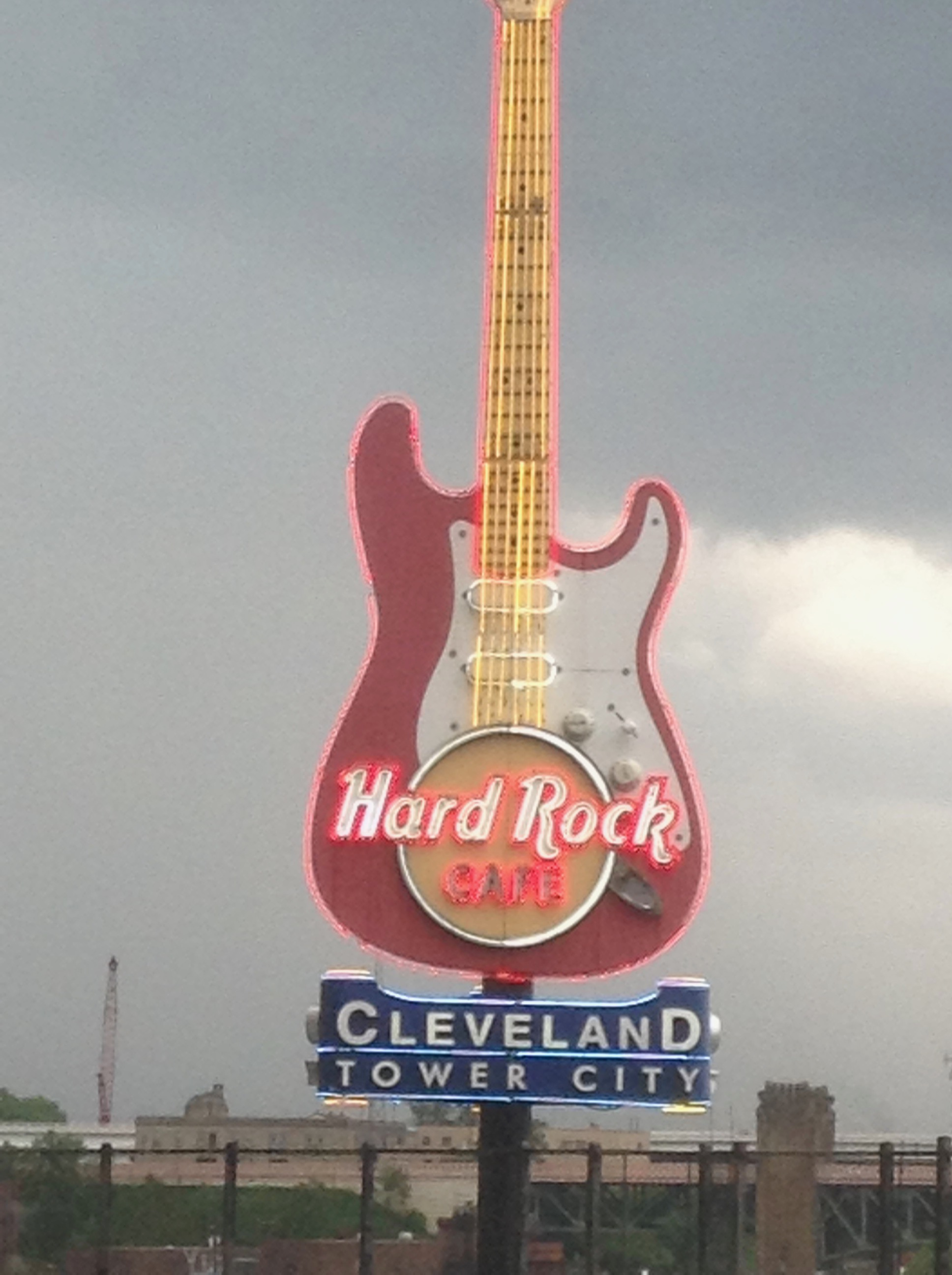 Sign for the Hard Rock Cafe at Tower City Center, near the Cuyahoga river